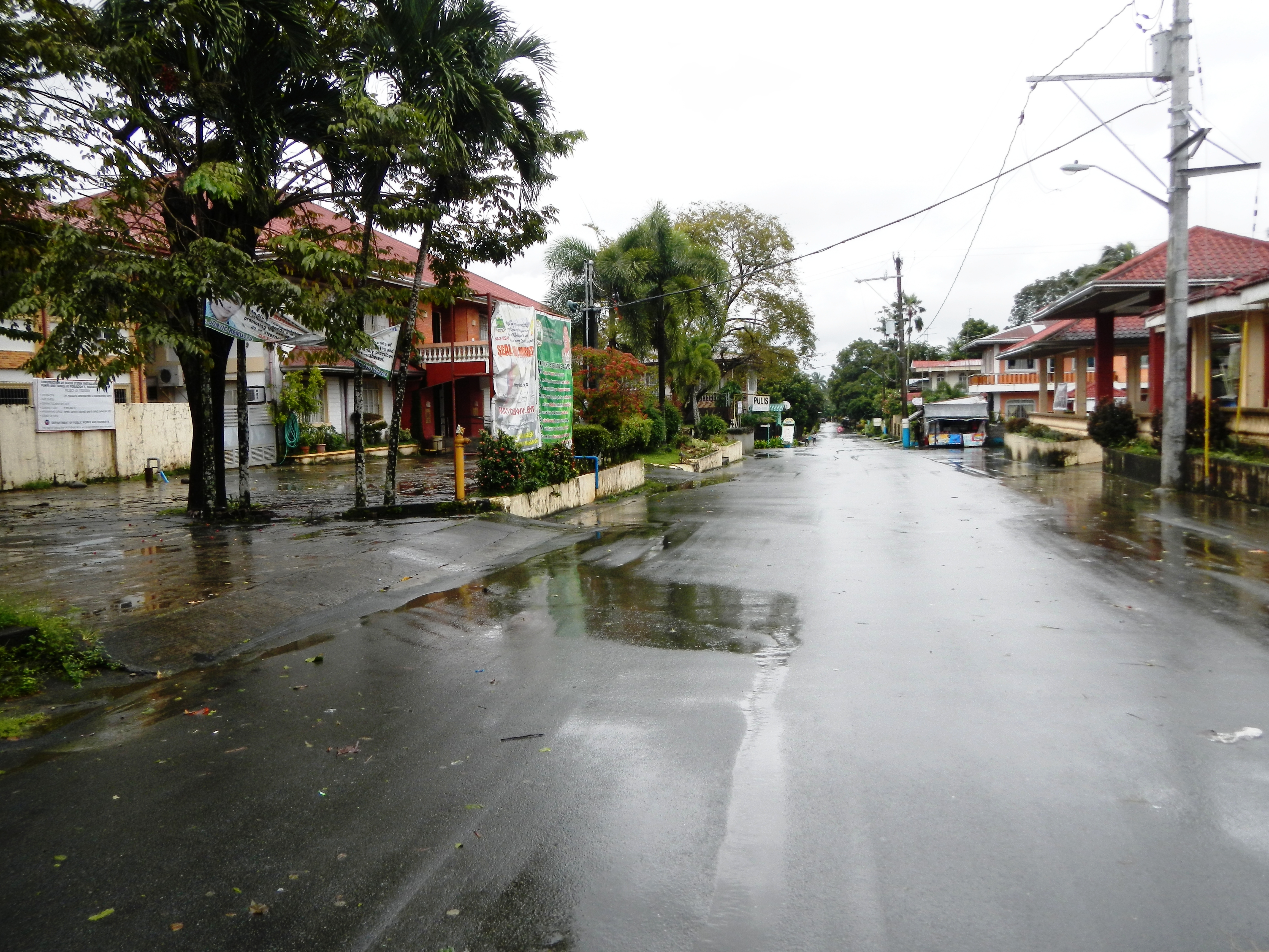 UploadWizard photos --- (general description) of landmarks, heritage, culture, comprehensive, photography) of -- town proper of -- Magallanes, Cavite [1] [2] (a 5th class municipality in the province of Cavite, [3] Philippines. According to the 2007 census, it has a population of 18,890 people. The town is named after Ferdinand Magellan. [4] Coordinates: 14°10'28"N 120°44'20"E., politically subdivided into 16 barangays; the patron saint of the town, Nuestra Señora de Guia[5][6] Geographical location: Cavite, Region 4, Philippines, Asia Geographical coordinates: 14° 11' 18" North, 120° 45' 27" East Website Cavite) - Anda St. cor. De Guia St., Barangay Dos - Magallanes Town Hall, Magallanes Plaza, and the -- Nuestra Señora de Guia Parish Church of Magallanes [7] & De Guia Academy, Parochial School (Magallanes Town Proper) De Guia st., Poblacion 3, Coordinates: 14°11'13"N 120°45'24"E [8] [9] Coordinates: 14°11'14"N 120°45'26"E - belongs to the Roman Catholic Diocese of Imus [10] District 3 District Coordinator: Rev. Fr. Inocencio B. Poblete Jr. Vicariate of Our Lady Of Assumption (Naic/Magallanes/Maragondon/Ternate) Vicar Forane: Rev Fr. Orlando A. Jimenez Vicarial Representative: Rev. Fr. Benito D. de Castro [11] Our Lady of Guidance [12] District 3 Vicariate of Our Lady of the Assumption) and De Guia Academy of Magallanes, Inc., De Guia St. Poblacion 3.[13] Coordinates: 14°11'13"N 120°45'24"E.[14] [15].